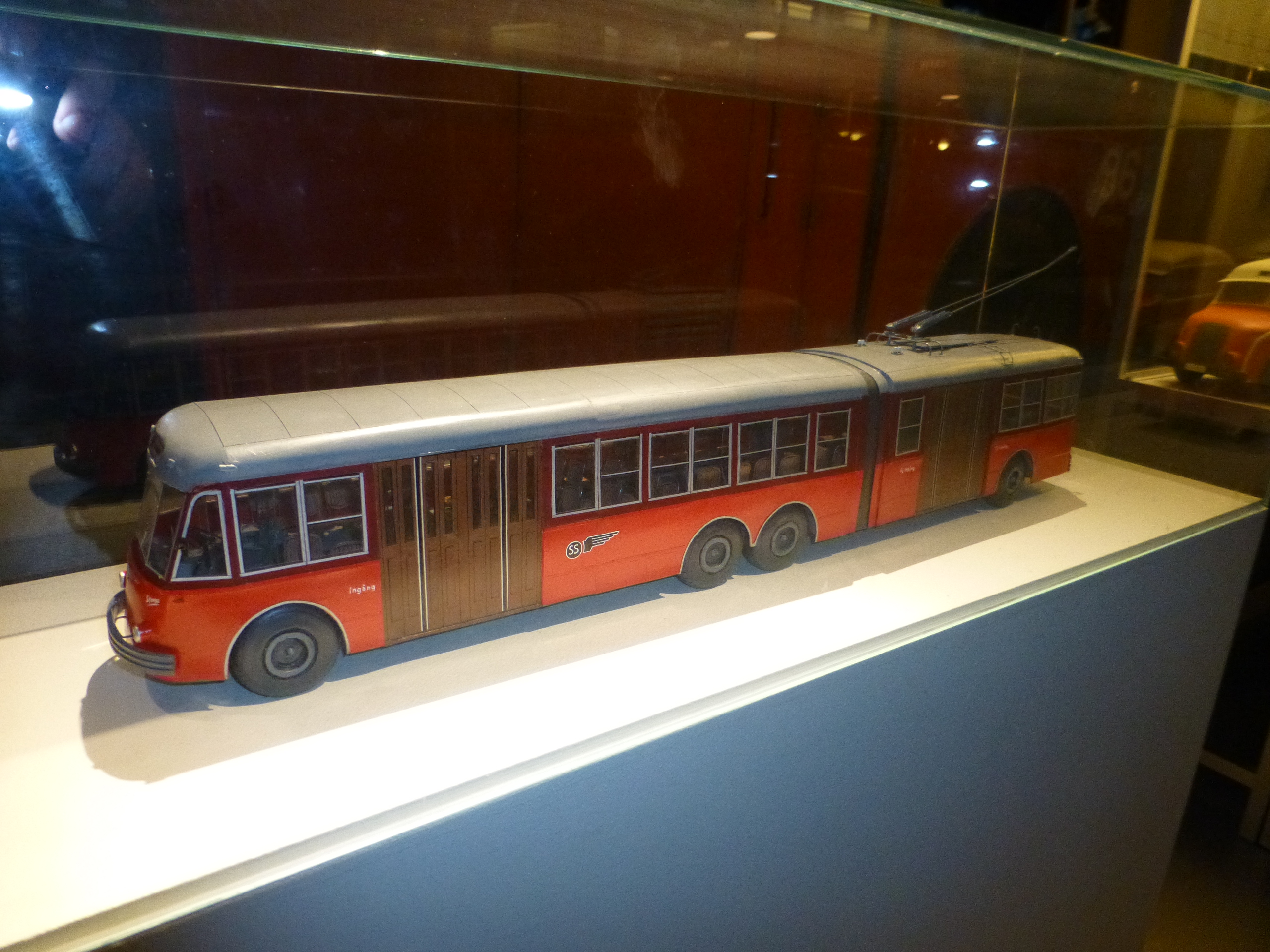 Model of trolleybus from Stockholm at Spårvägsmuseet in Stockholm. This model represent 10 trolleybuses of Alfa Romeo model 140AFS built for Stockholm in 1950.